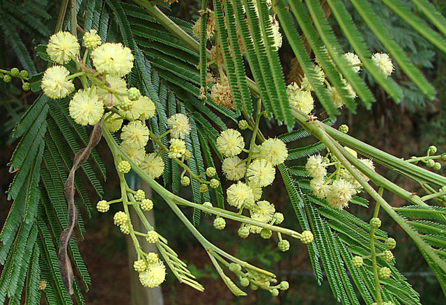 Widely known as Cebil In context at